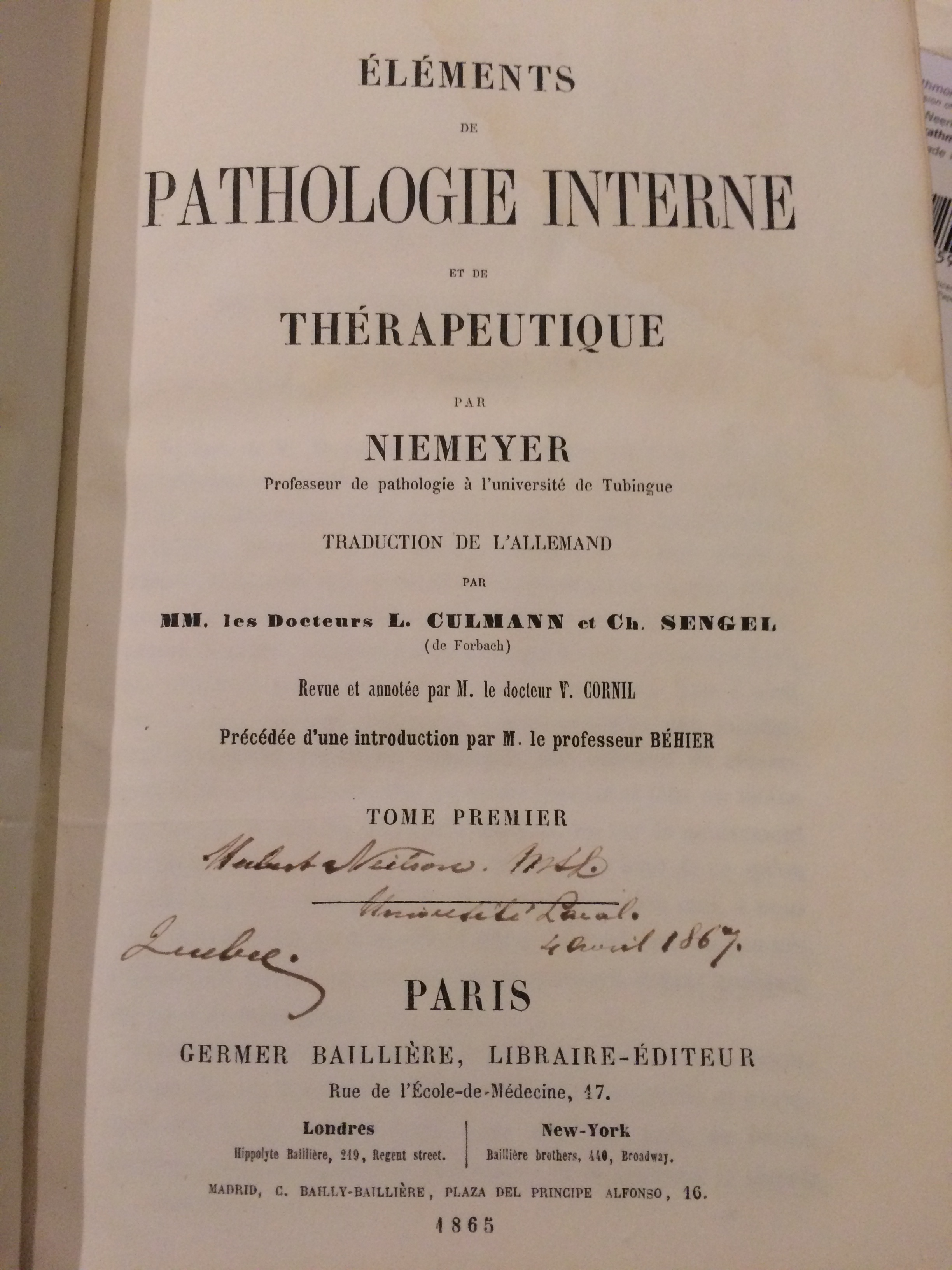 His book of internal pathology while studying medicine at Laval University, April 4, 1867.